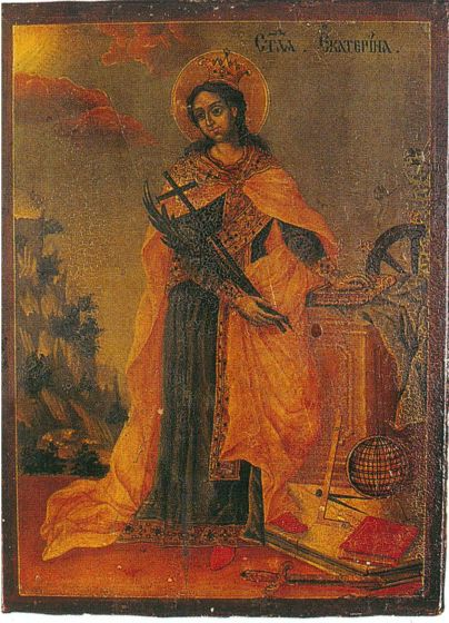 Saint_Catherine_Icon_by_Toma_Vishanov.